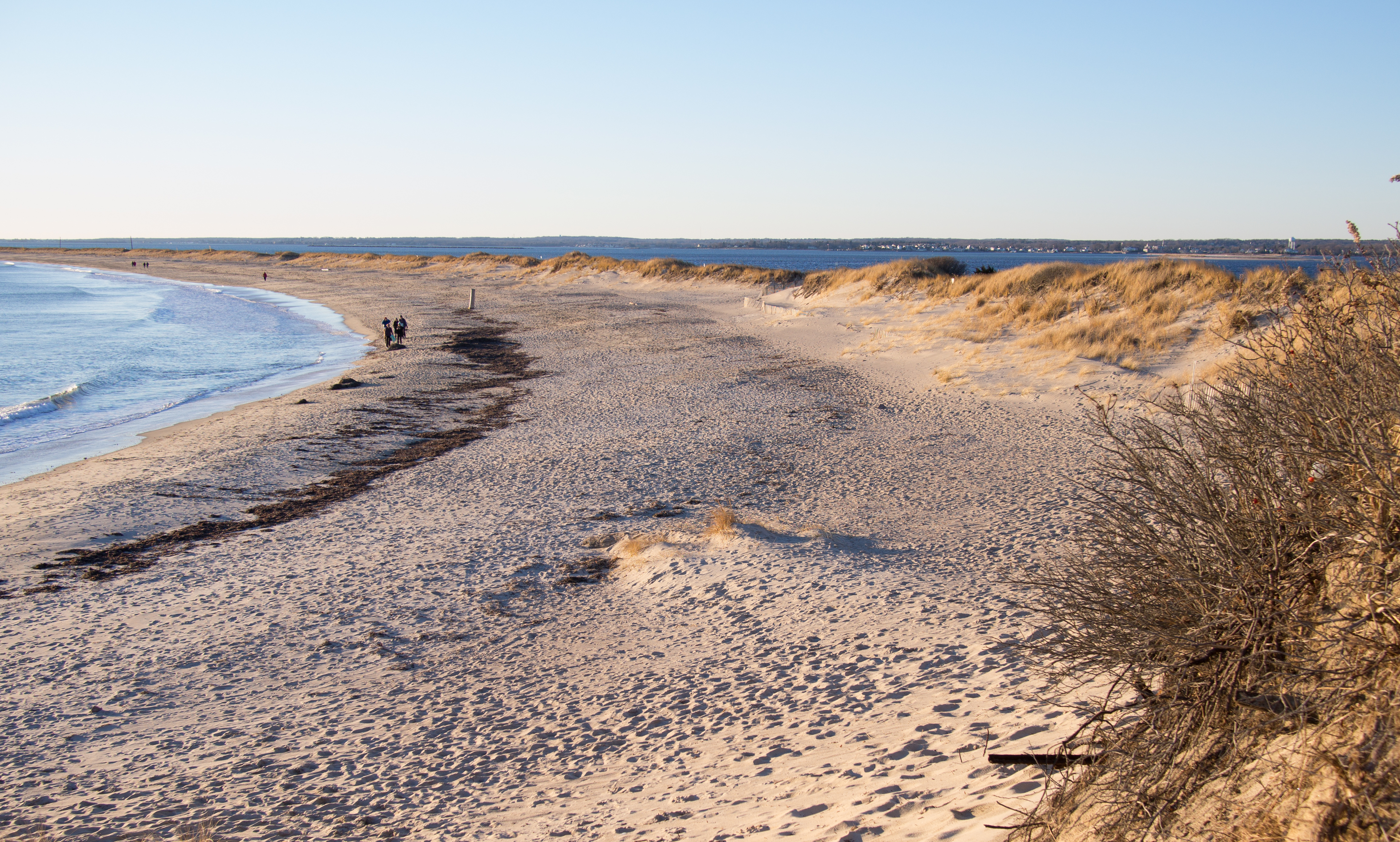 Napatree Point Conservation Area in the Watch Hill area of Westerly, Rhode Island.